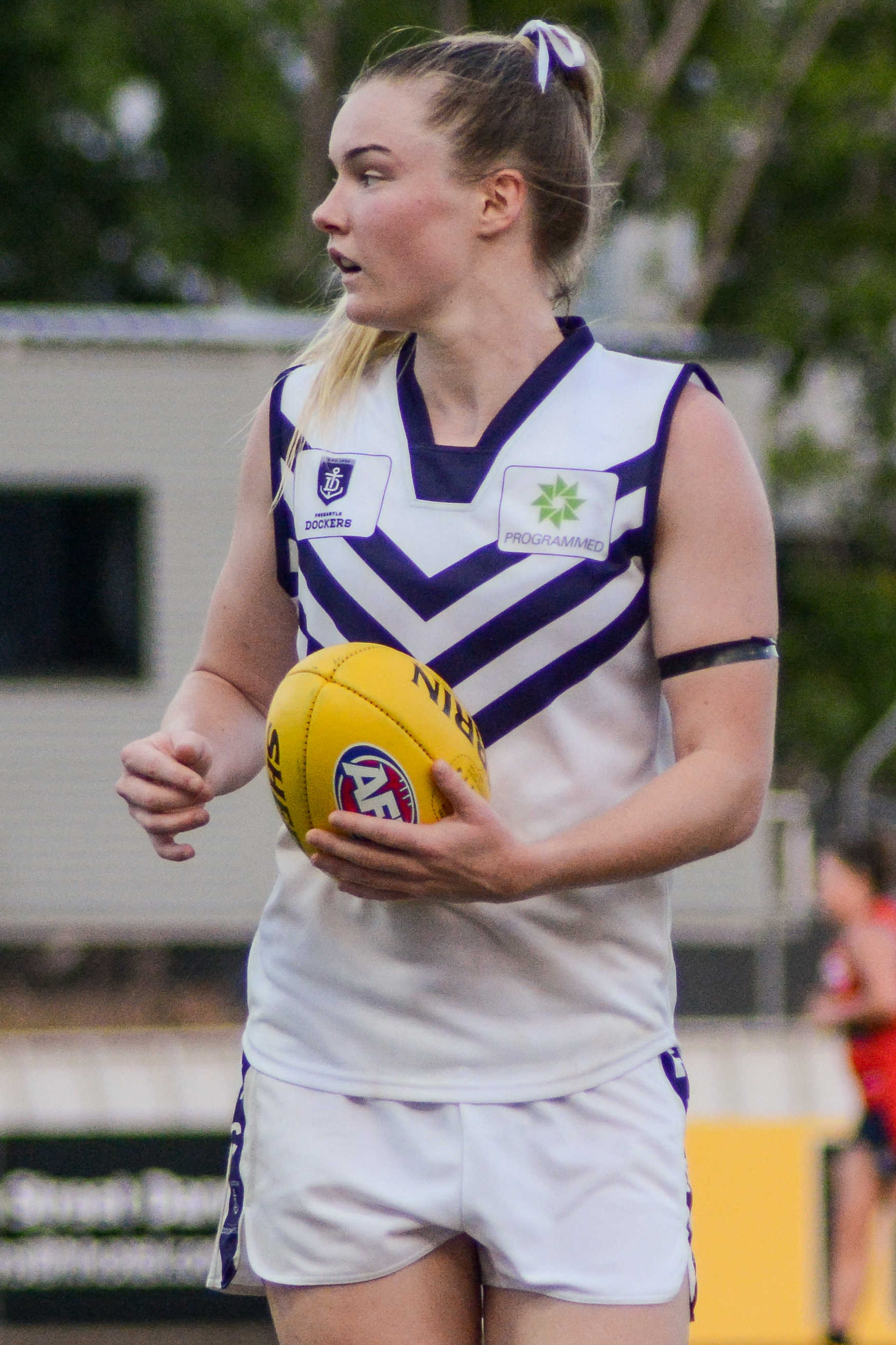 Hayley Miller in January 2017